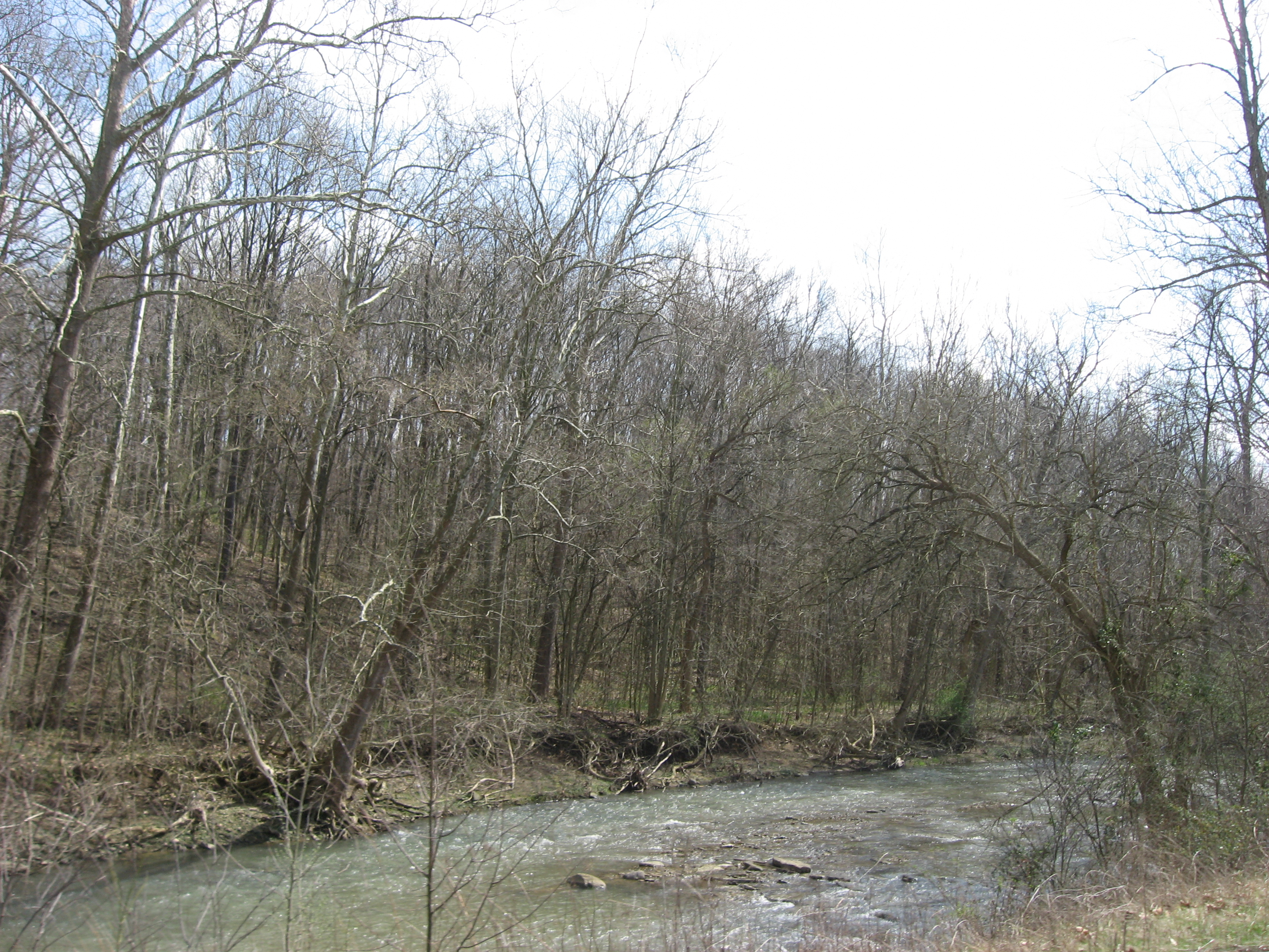 Looking southward (upstream) along the Anderson Fork from the McKay Road bridge, west of Port William in Liberty Township, Clinton County, Ohio, United States. In the distance is the Hurley Mound, a burial mound built by the Adena culture and a significant archaeological site. It is listed on the National Register of Historic Places.